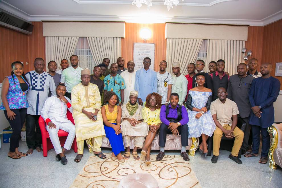 NIP Officials